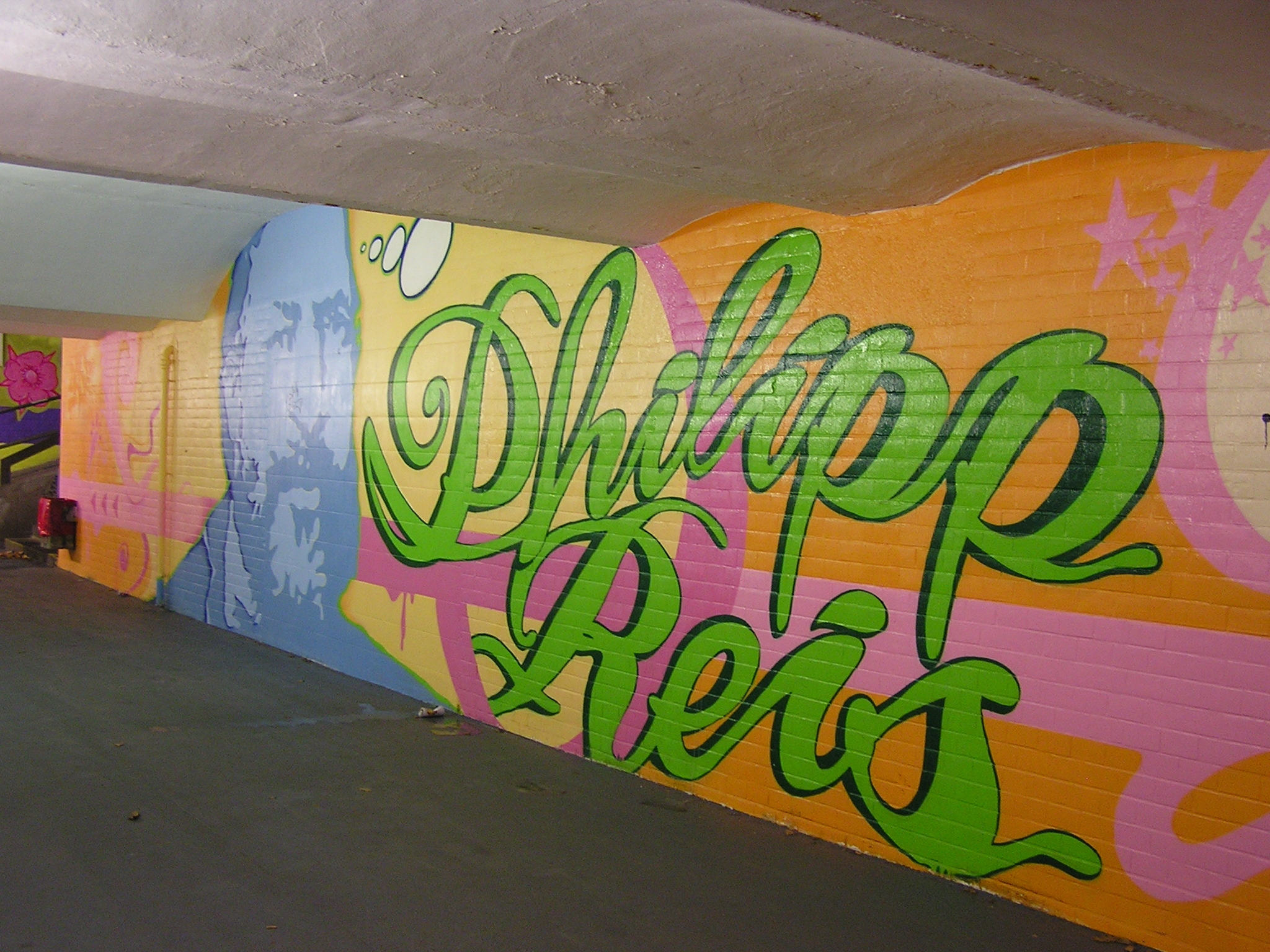 The underpass of the station Friedrichsdorf was repainted with typical things from Friedrichsdorf